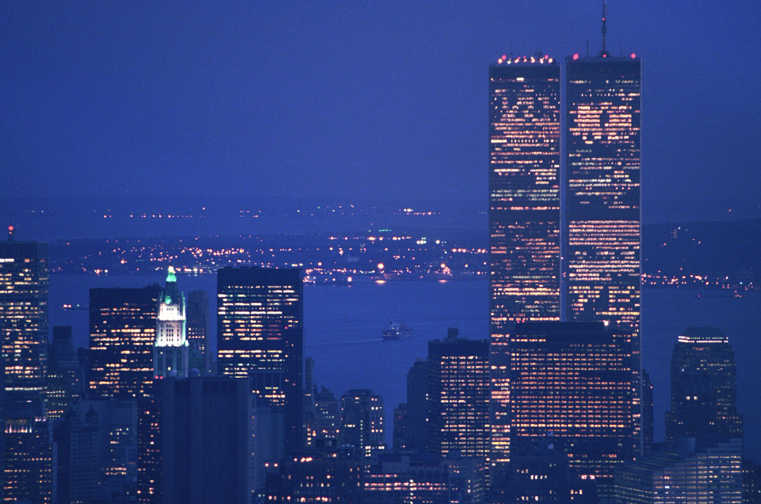 Twin Towers view from Empire State Building 86th floor observatory, 4 months before the September 11, 2001 attacks.